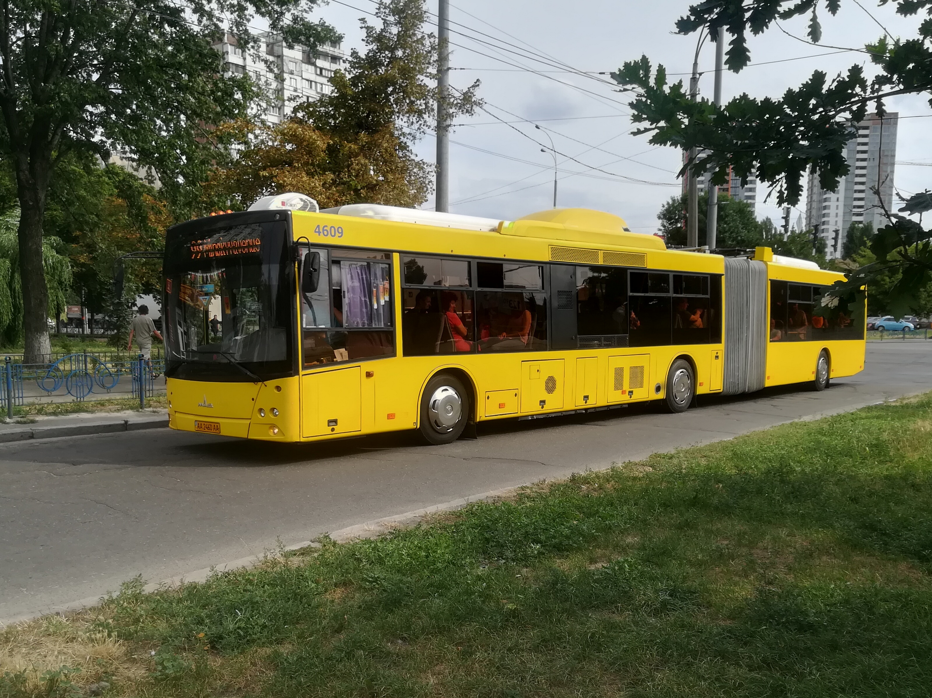 Bus MAZ-215 No. 4609 on Marshala Rokossovskoho avenue in Kyiv (route 99)